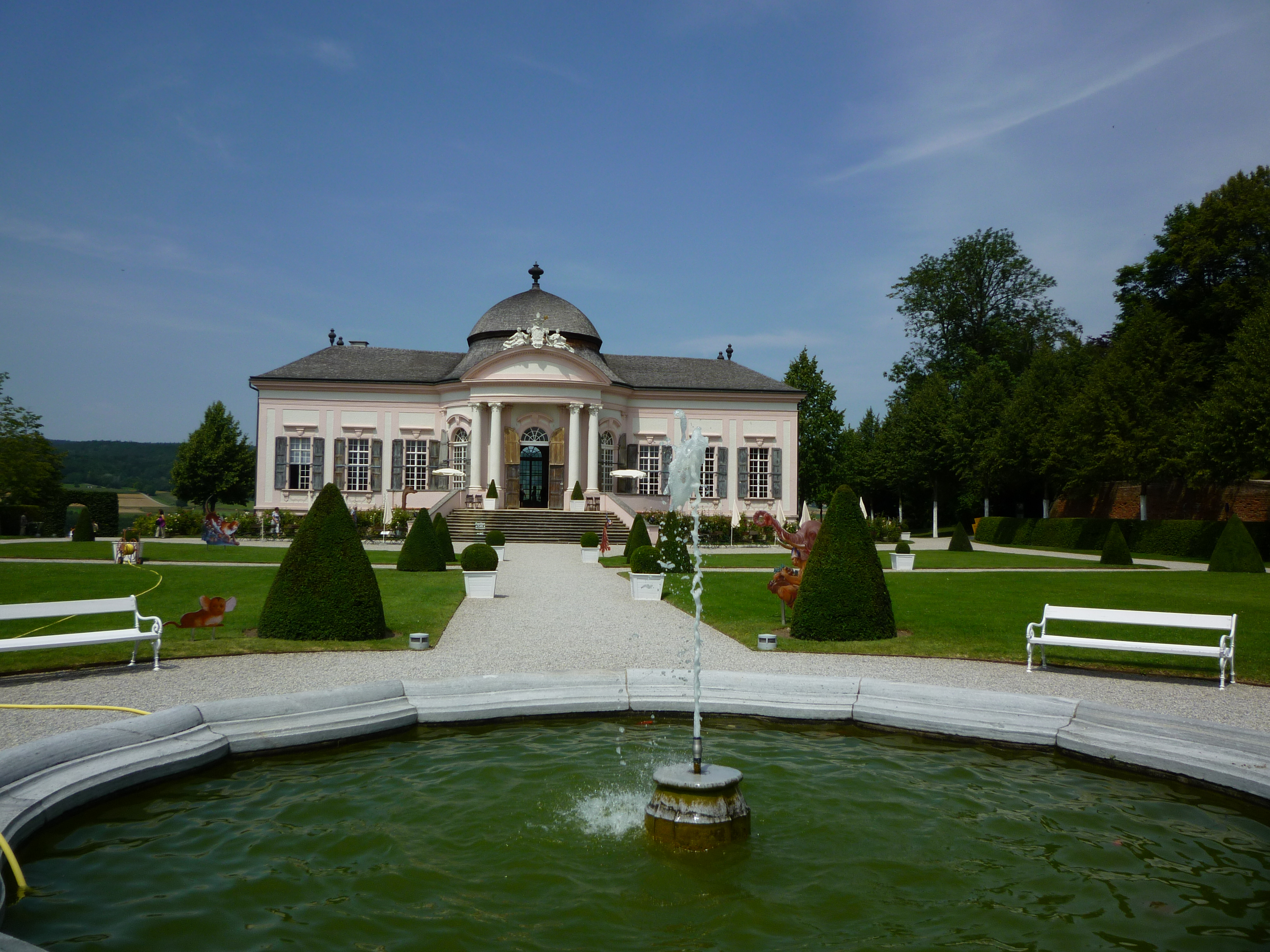 Garden Pavilion in the park of Melk Abbey